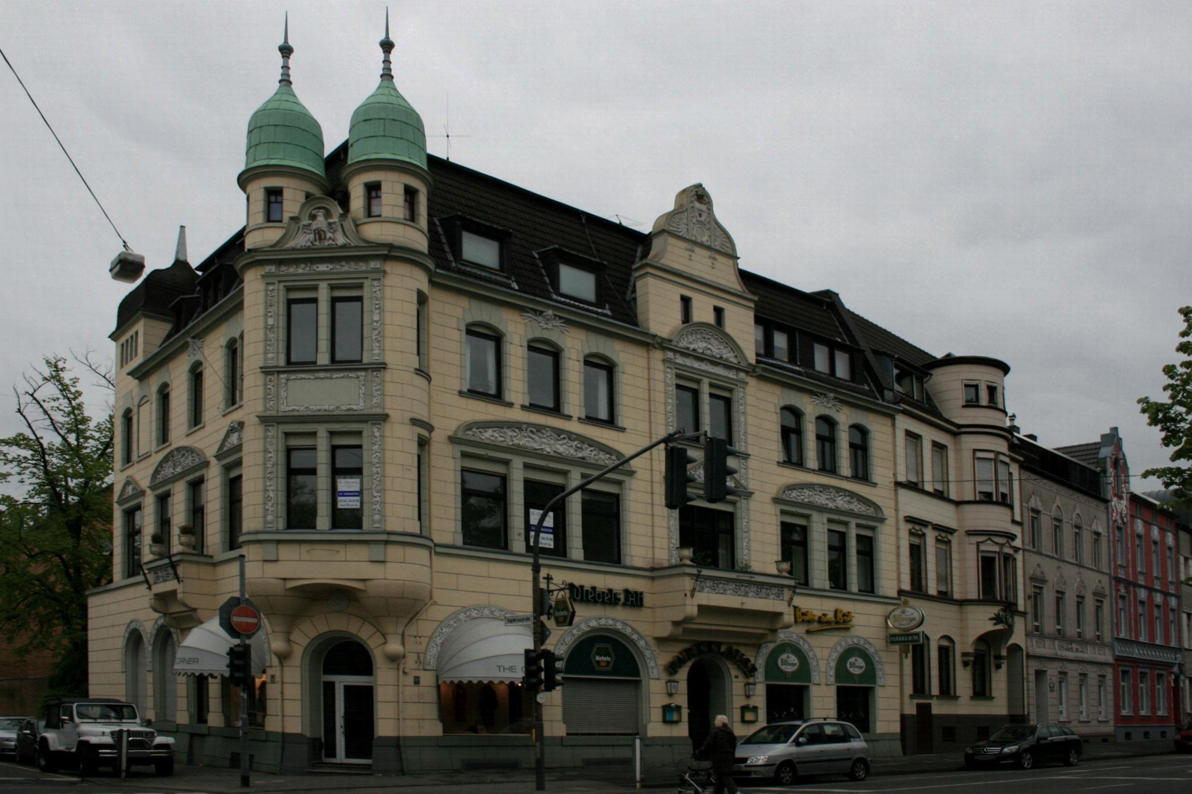 Cultural heritage monument No. V 013 in Mönchengladbach